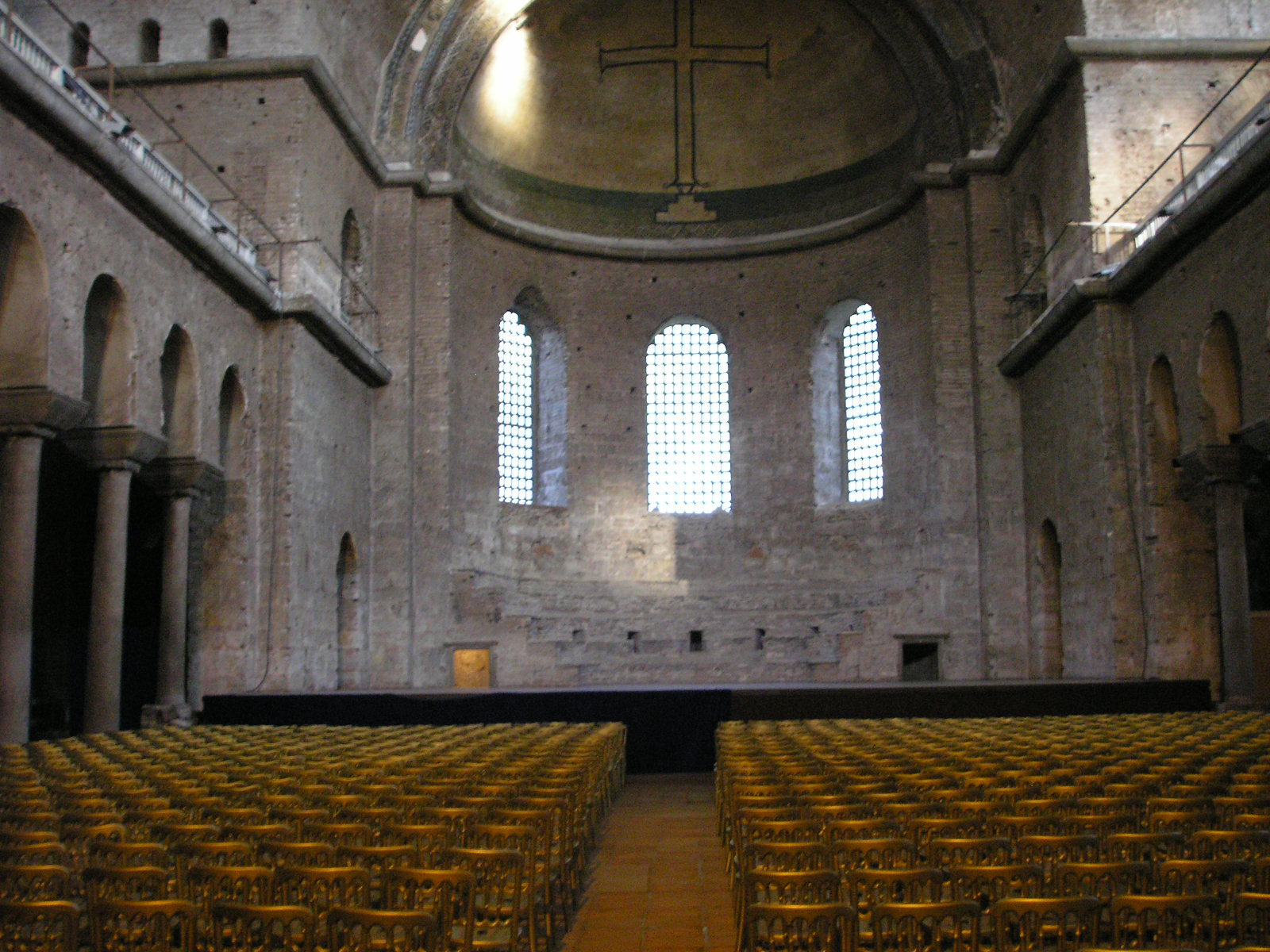 Image of Hagia Eirene church in Istanbul, next to Topkapi Palace.